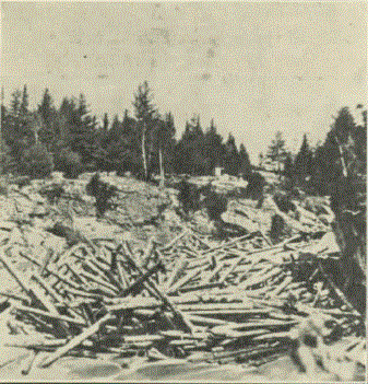 A log jam in Berlin Falls, New Hampshire